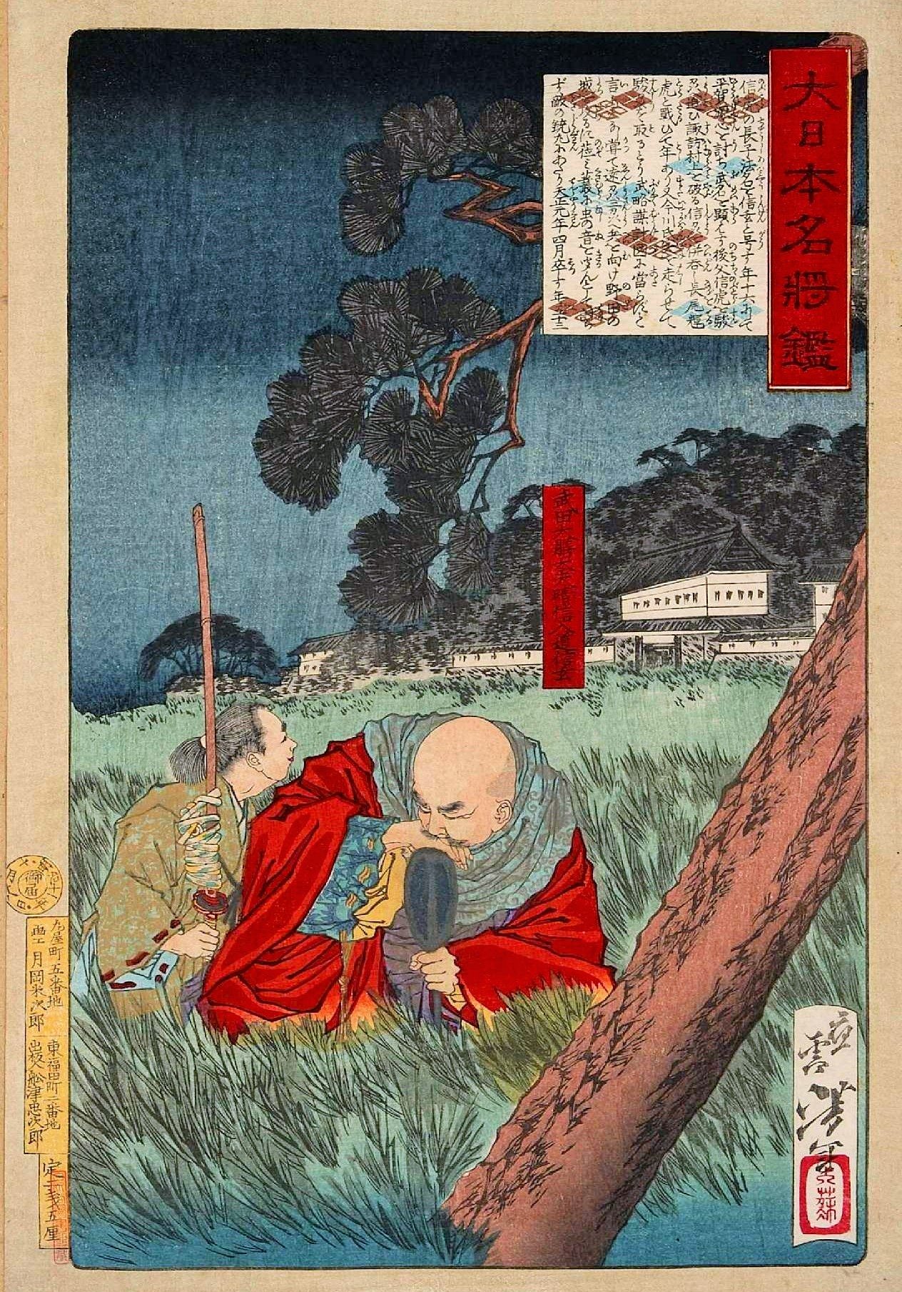 Takeda Shingen's final moemnt. He was killed by arrows when he tried to listen to the singing of insects in the grass outside Noda castle during the Siege of Noda Castle. There are various theories about his death.